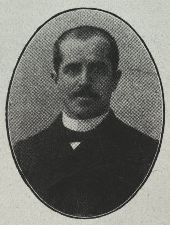 Michail Kepetzis (1865-1939): Greek diplomat and university professor